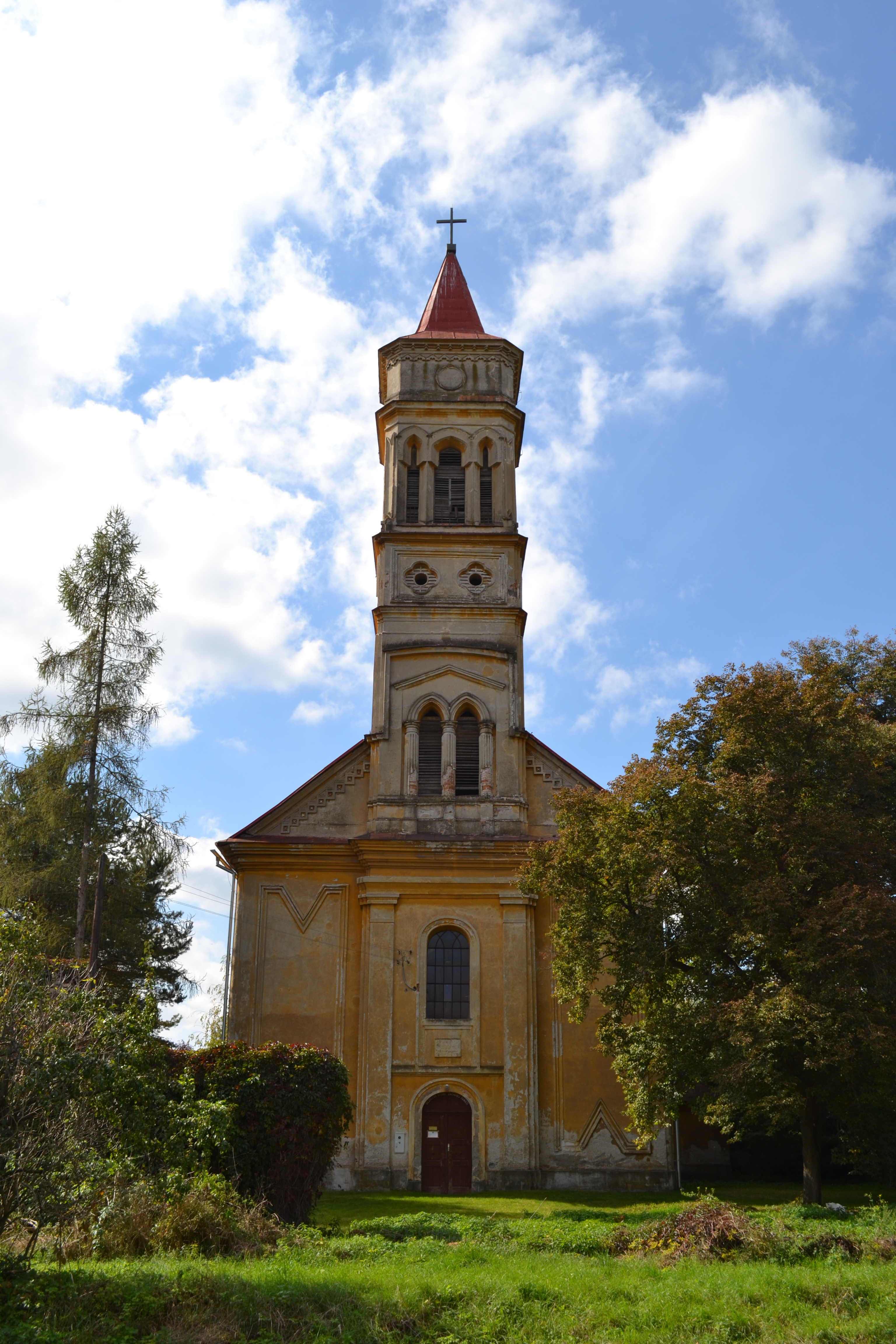 Baroque-Classicist Lutheran church built in 1808 in Čerenčany.